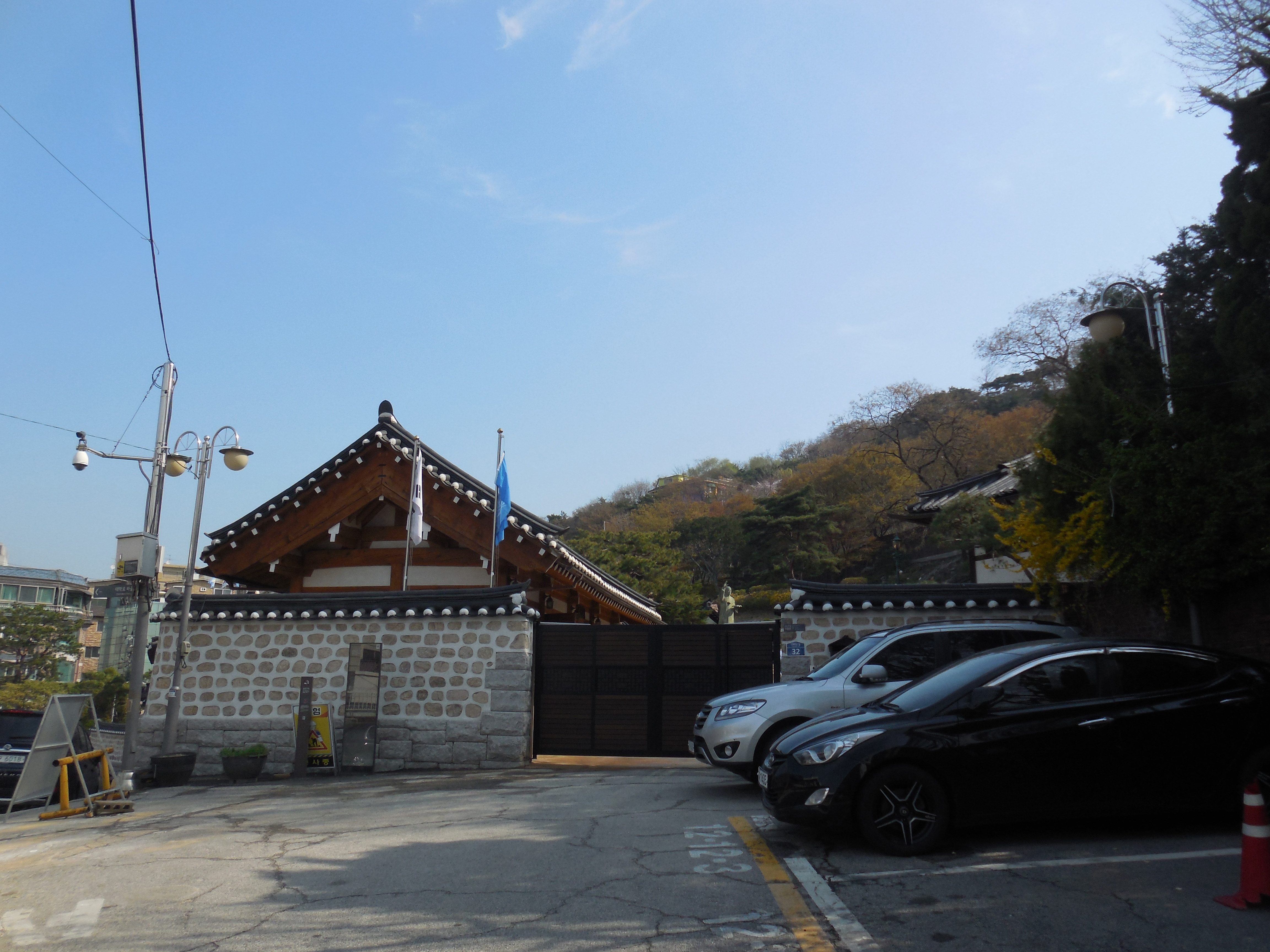 Entrance of Ihwajang, house of Syngman Rhee.